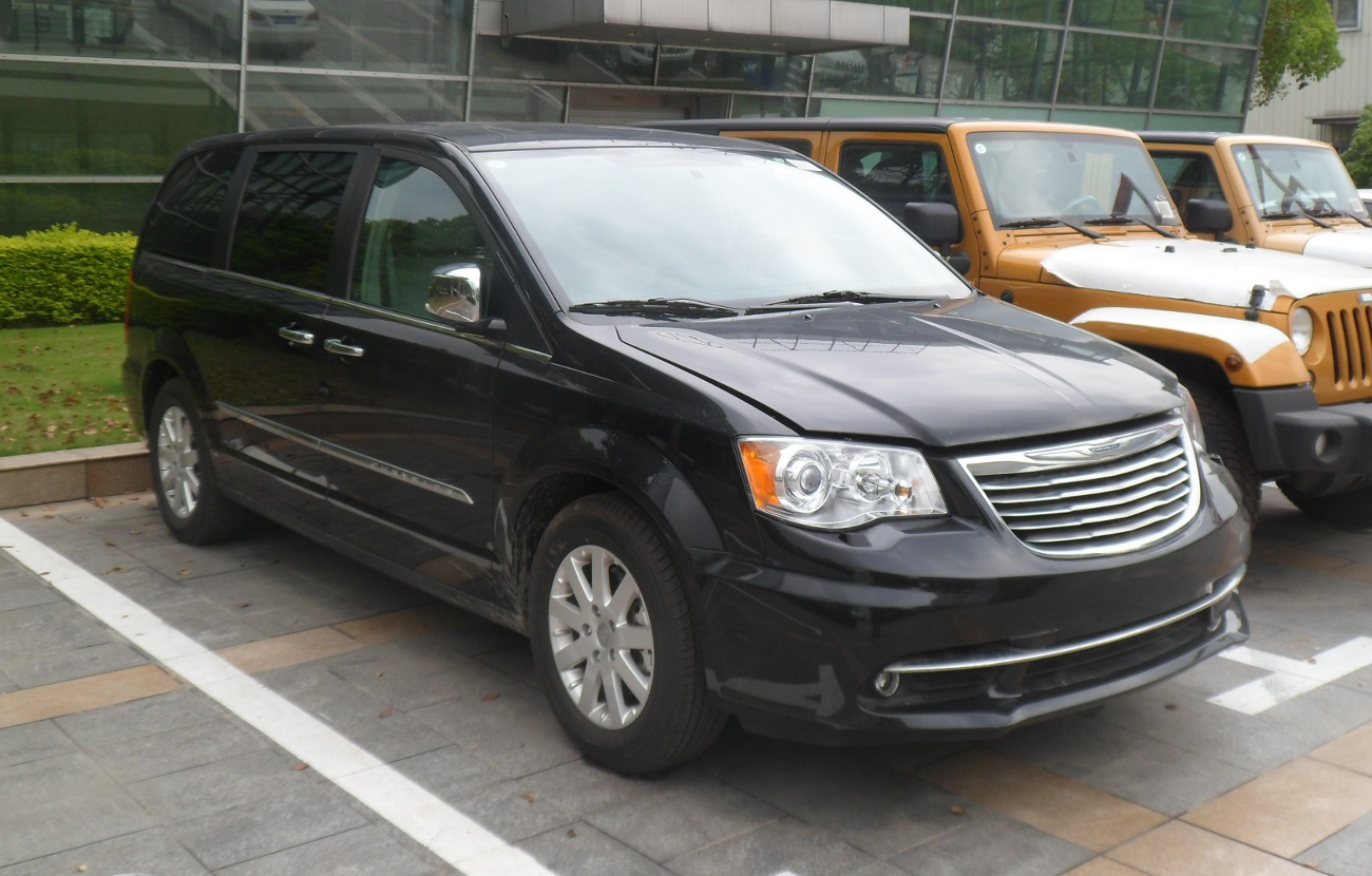 Chrysler Grand Voyager RT facelift photographed in Anting, Shanghai municipality, China.